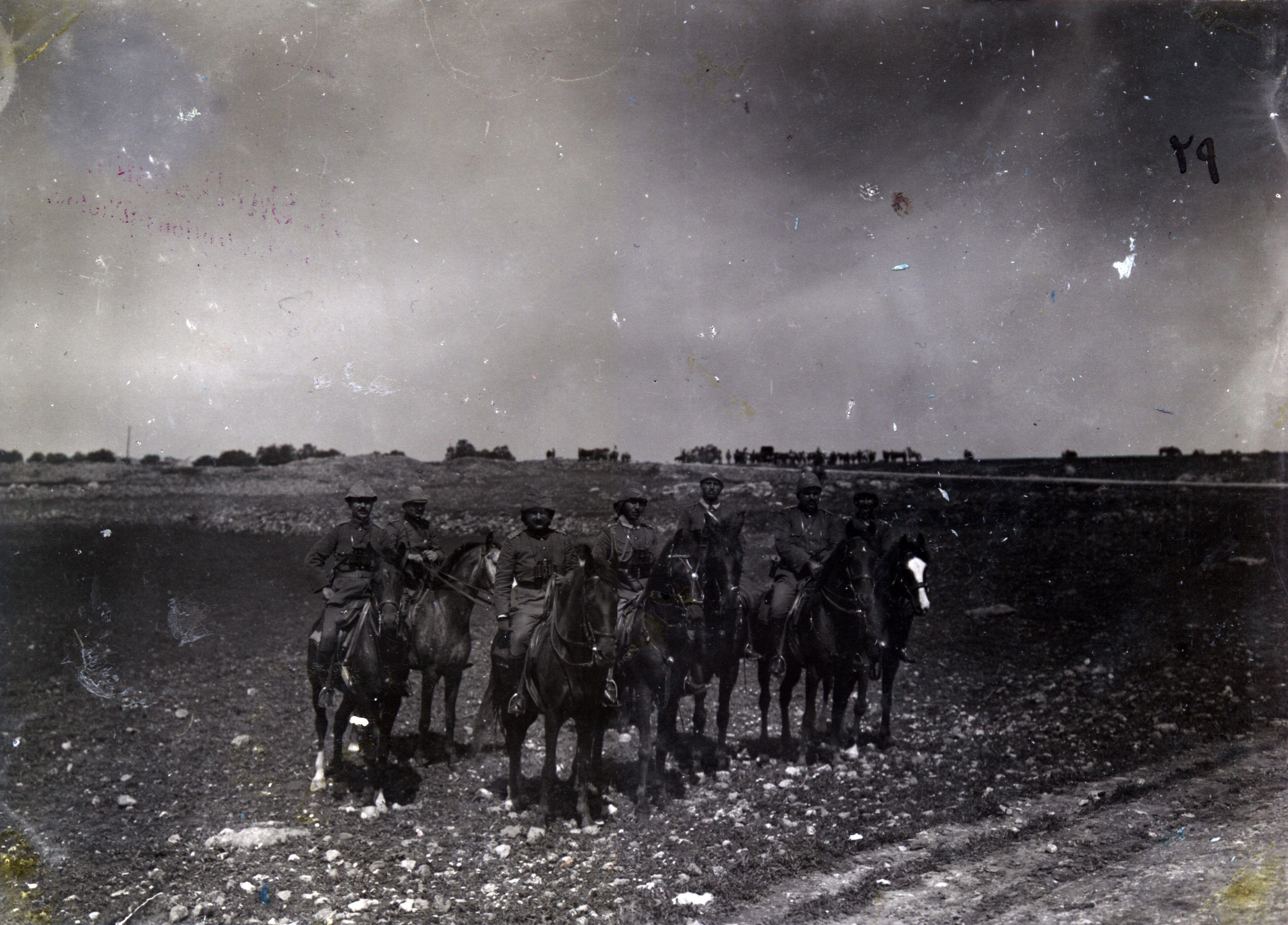 Mersinli Djemal Pasha and his staff officers mounted